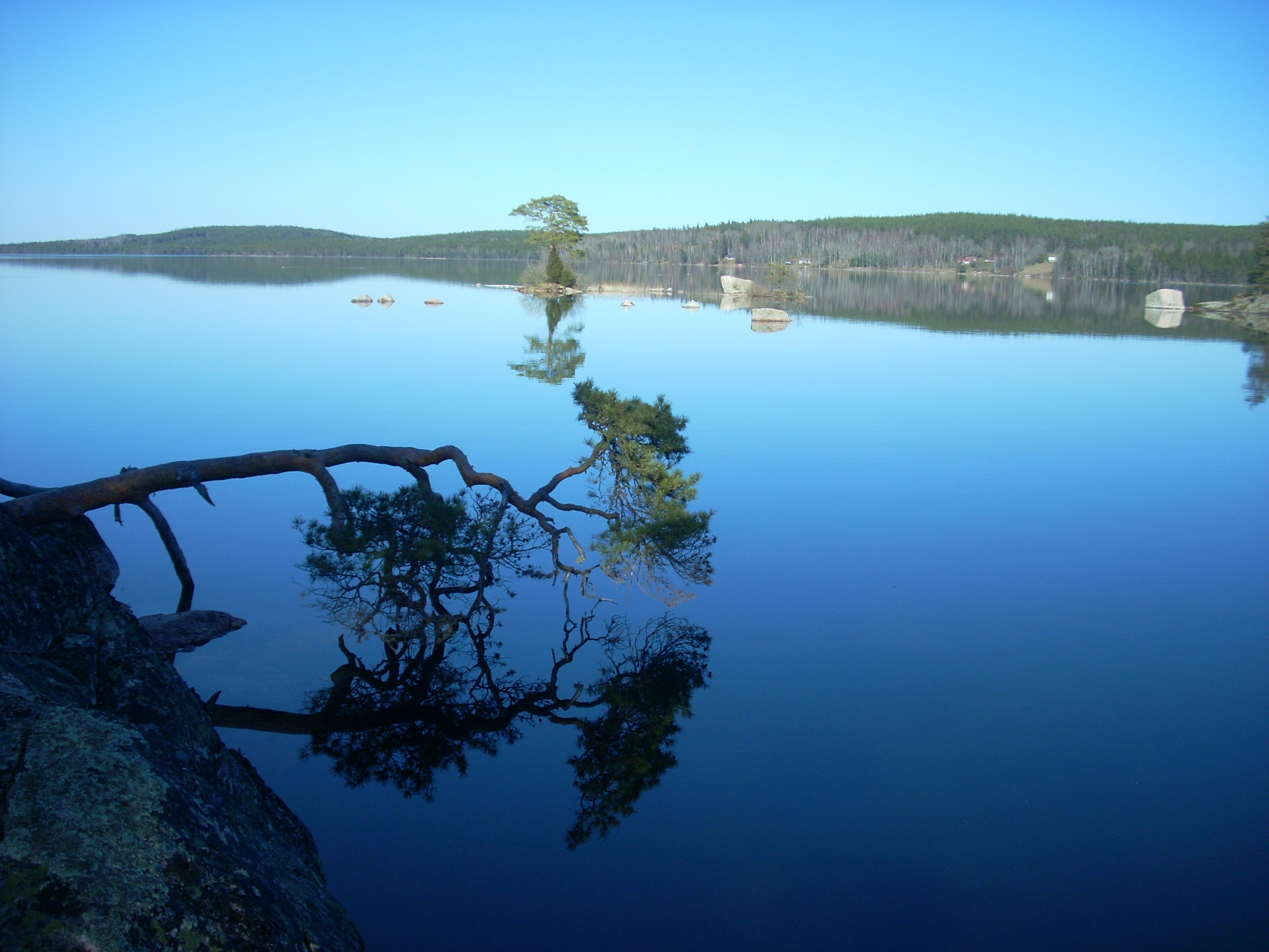 View of a pine hanging over Lake Sommen.